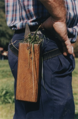 Scythe honing stone.